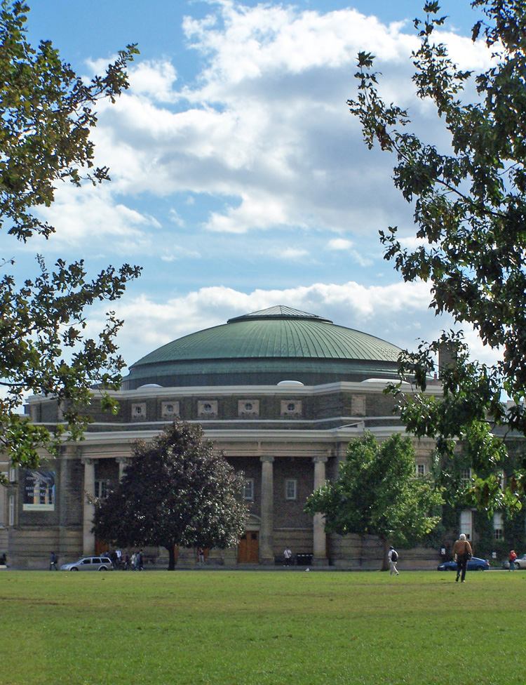 Convocation Hall, University of Toronto